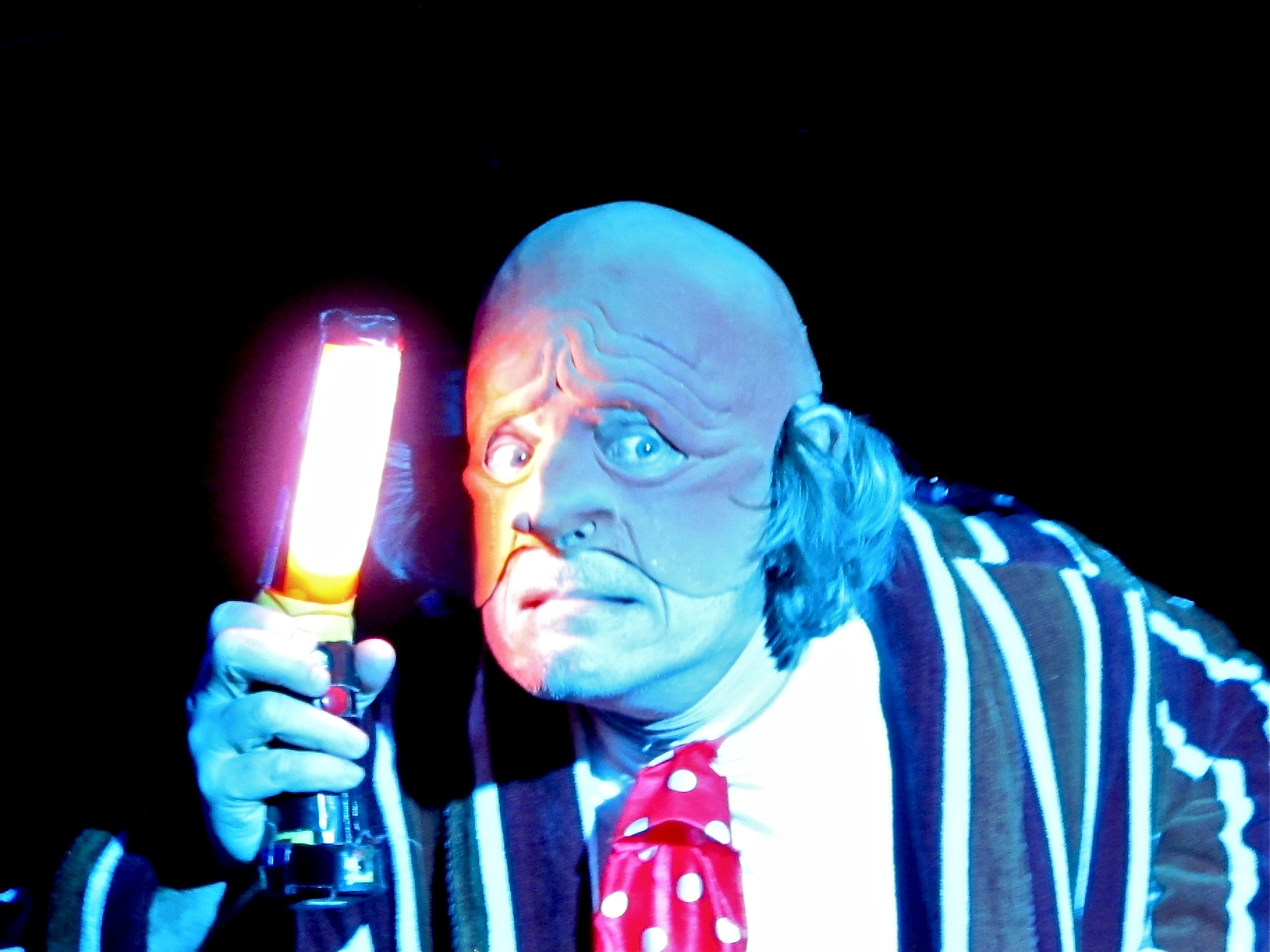 The Residents @ Middle East Downstairs